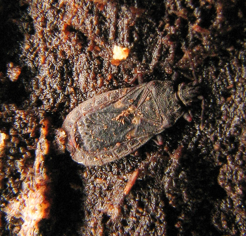 Flat bug, Neuroctenus, male, under bark. Size: 5-6 mm. Churchville Nature Center, Bucks County, Pennsylvania, USA.